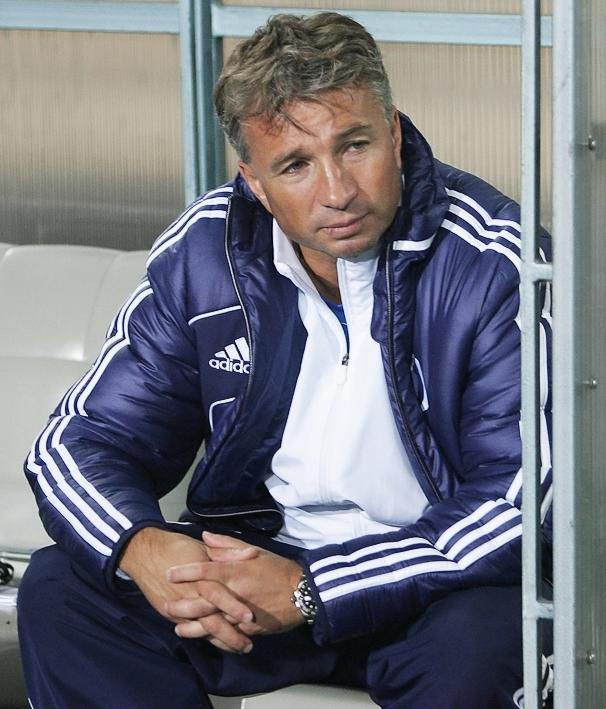 Dan Petrescu coaching FC Dynamo Moscow.